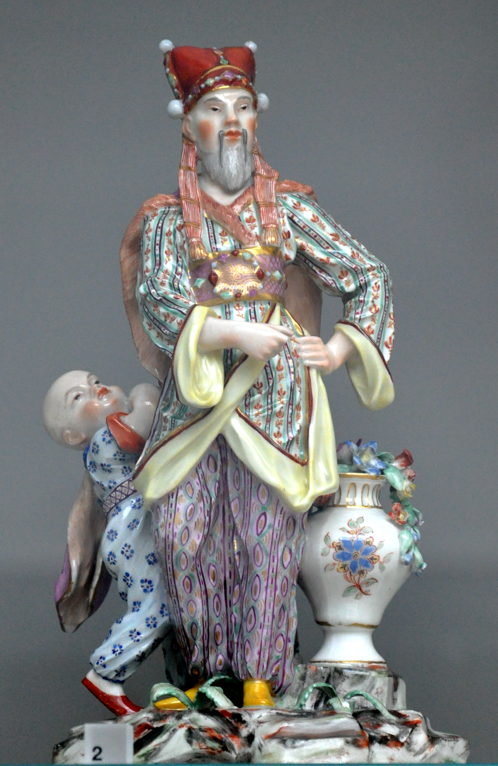 Chinoiserie figure group in hard-paste porcelain comprising a Mandarin with an attendant small boy painted in enamels and gilded, made by the Ludwigsburg porcelain factory, Germany, ca. 1766. Modeller: Joseph Anton Weinmüller. Victoria and Albert Museum, London, museum no. C.739-1923 (Link)